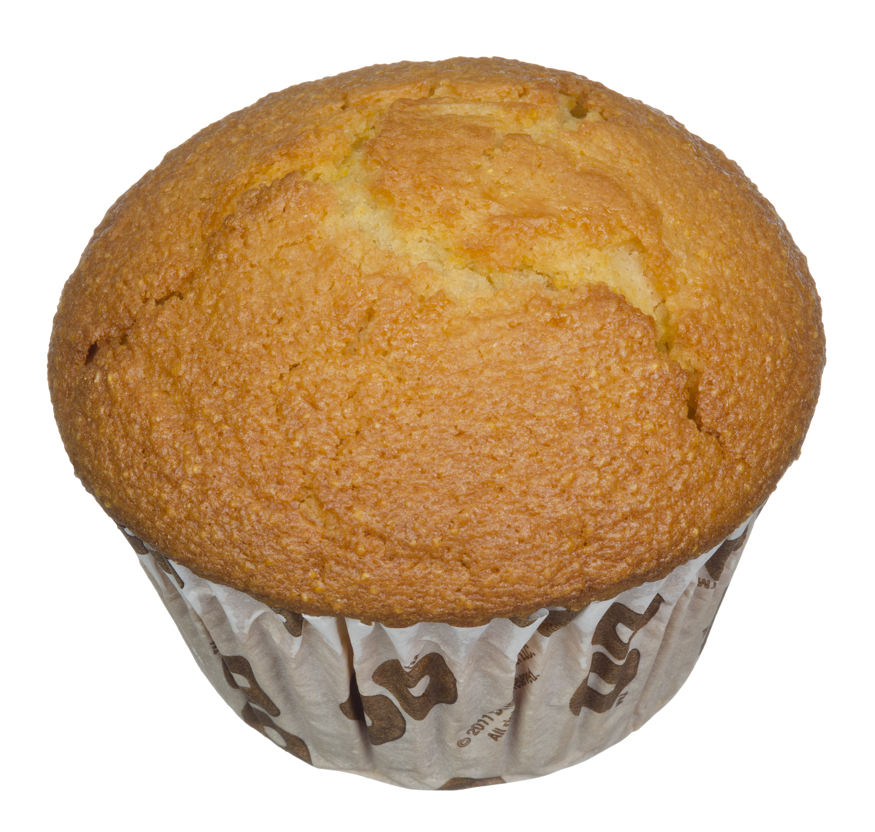 A corn muffin from a Dunkin' Donuts in Brooklyn, New York. Cost was $1.39.